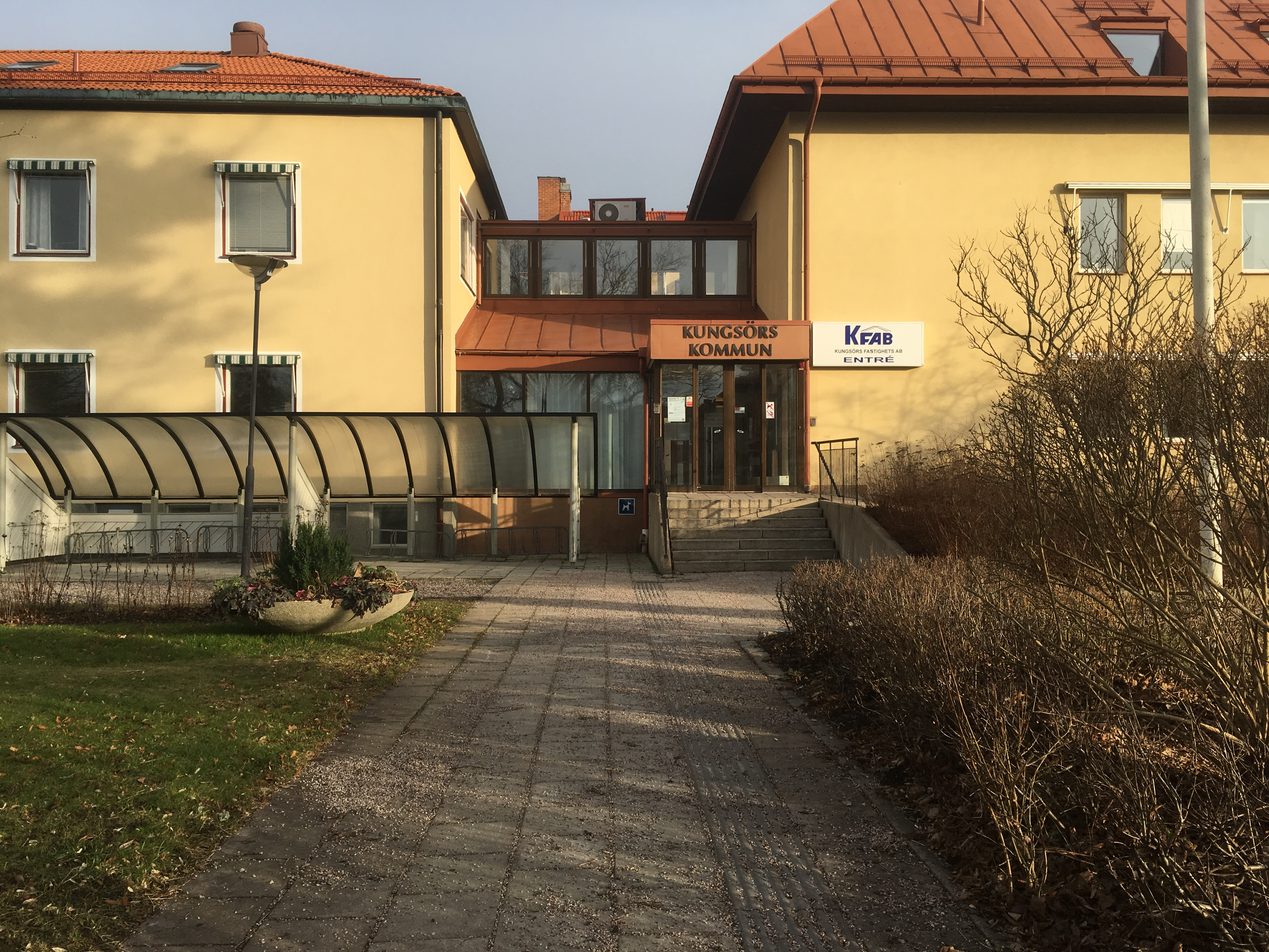 Town hall of Kungsör Municipality.